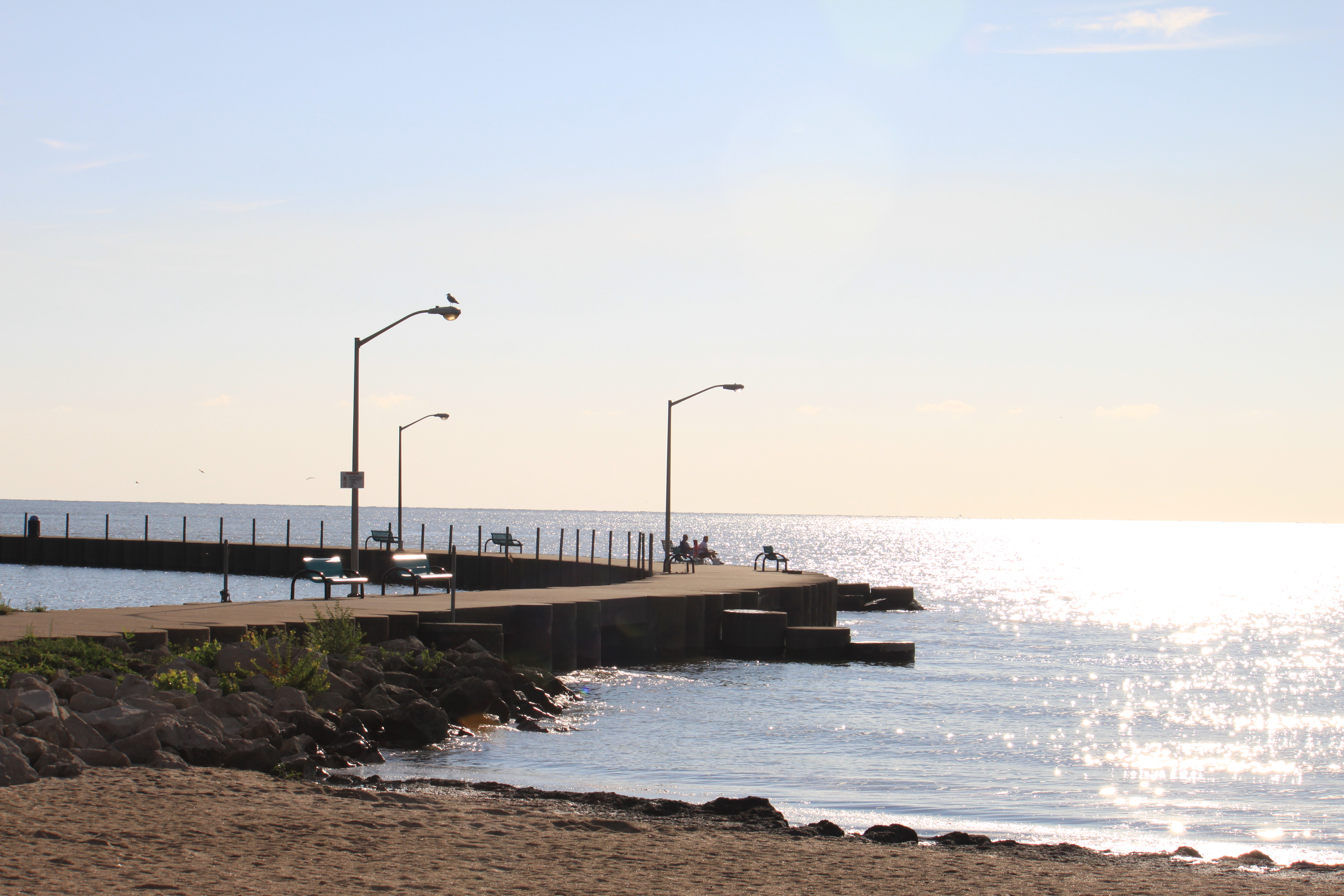 Luna Pier Michigan, fishing on Luna Pier